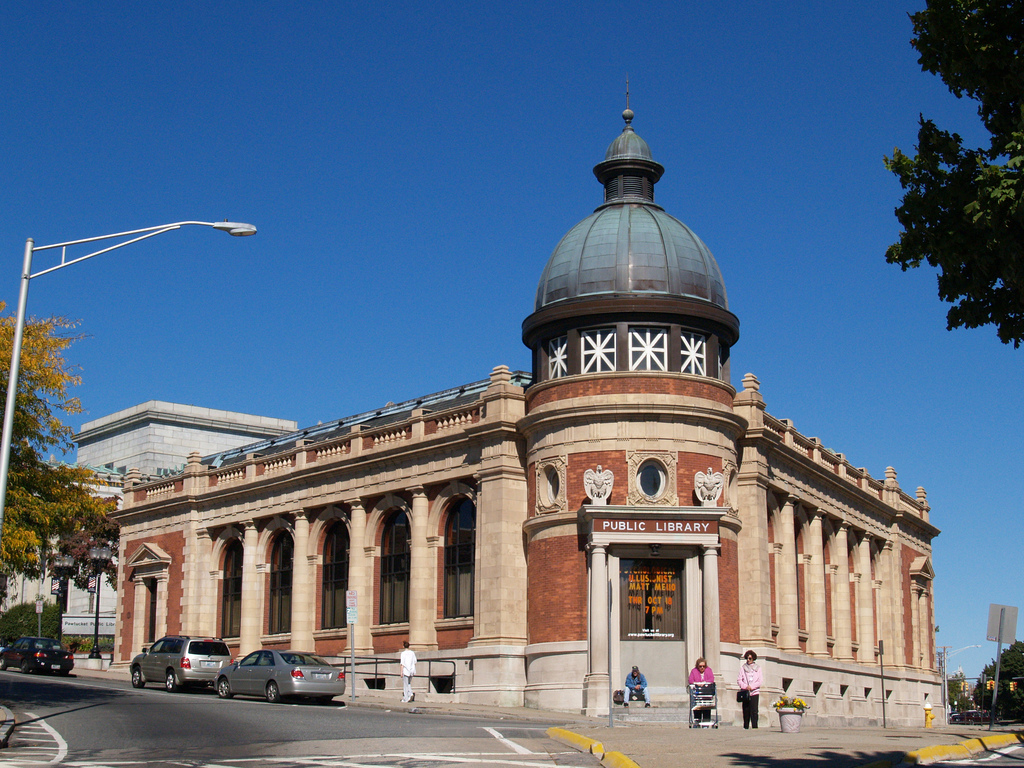 Former Post Office, Pawtucket, Rhode Island. Now part of the public library.